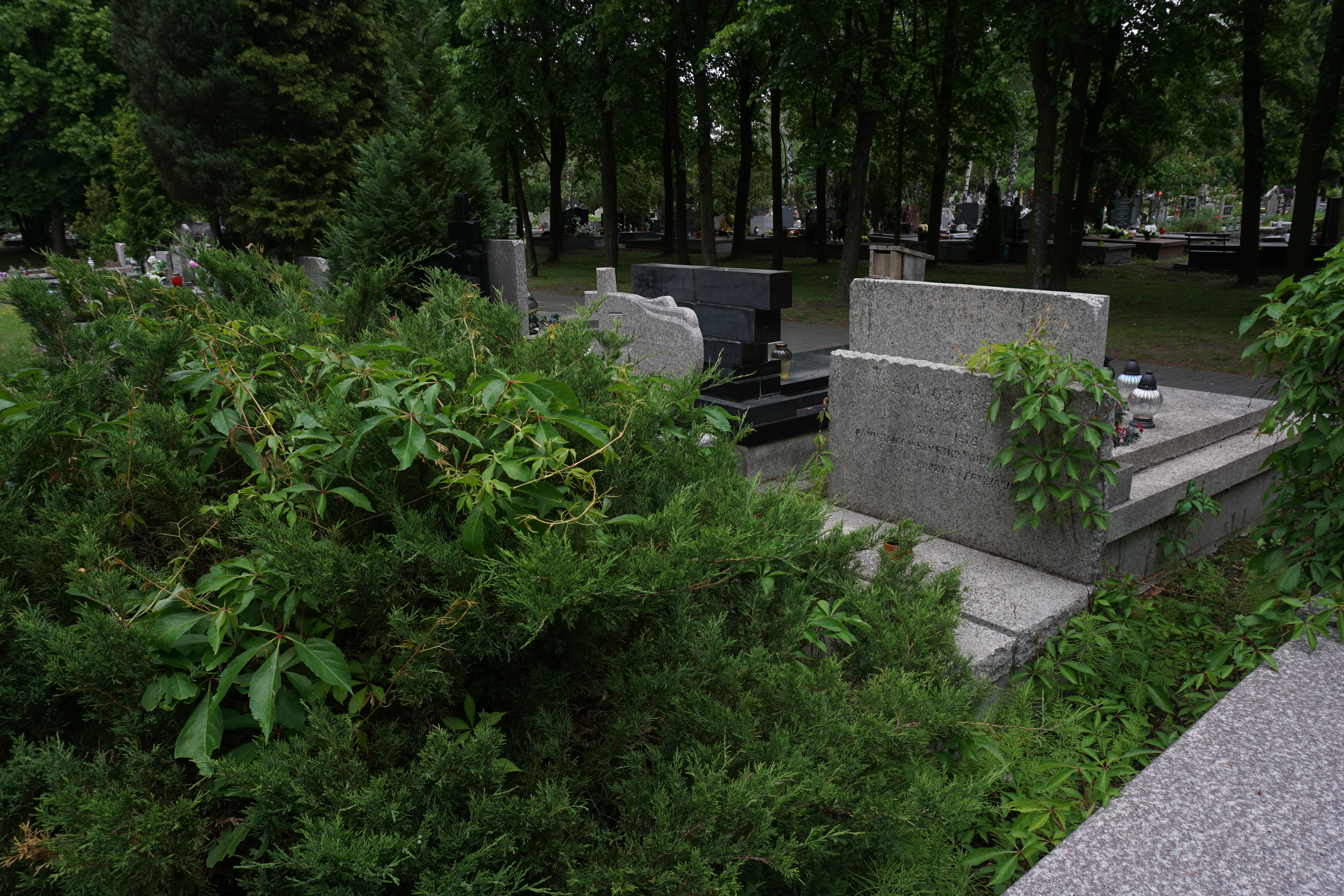 The grave of Irena Grobelna at the North Municipal Cemetery in Warsaw (section E-IV-2, row 5, grave 16)